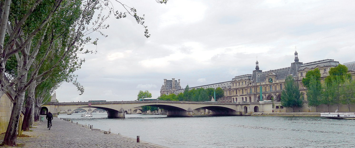 Royal bridge - Paris